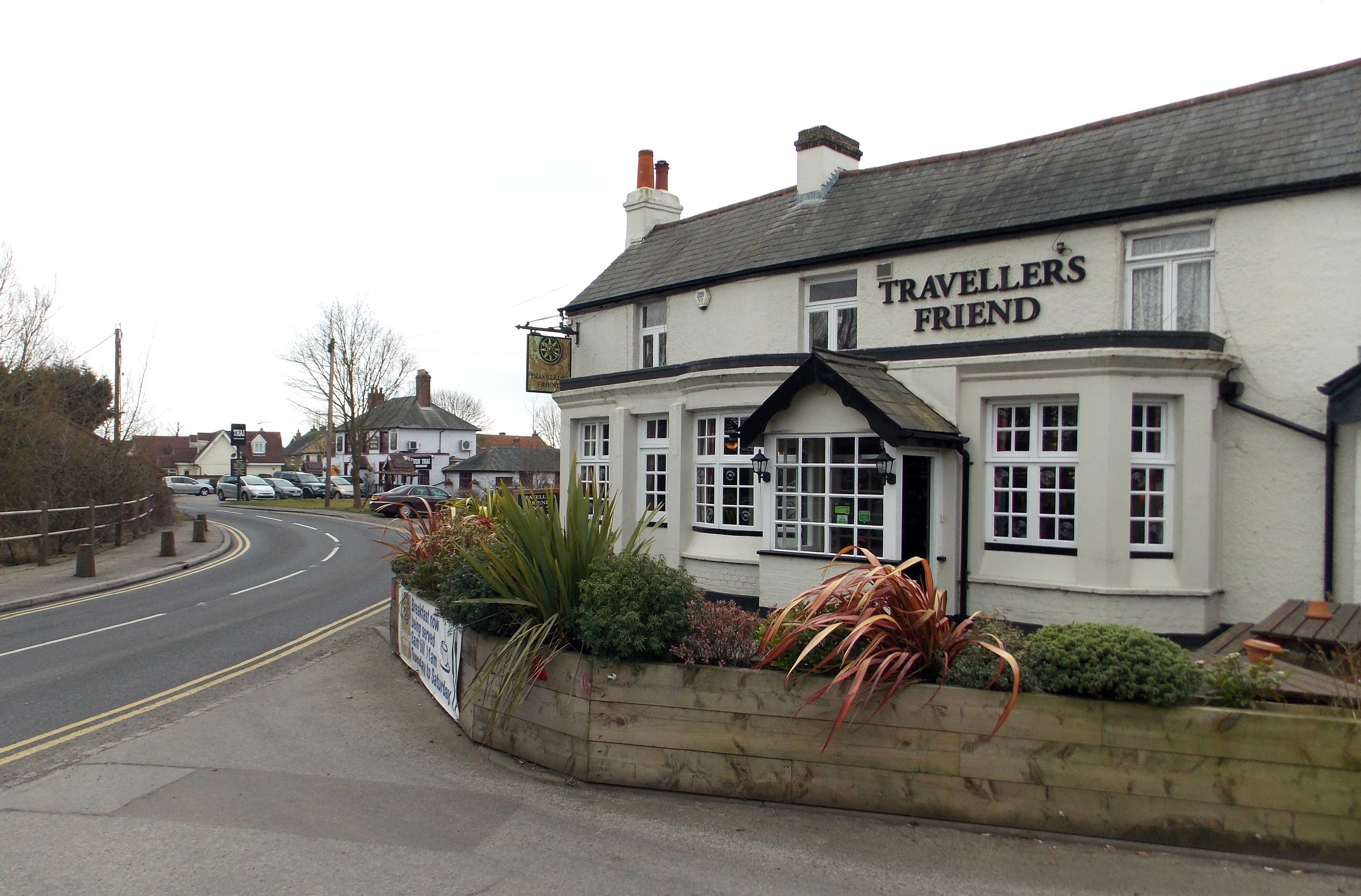 The Travellers Friend and Cock & Magpie public houses adjacent on the B181 road, in Epping Green, Essex, England